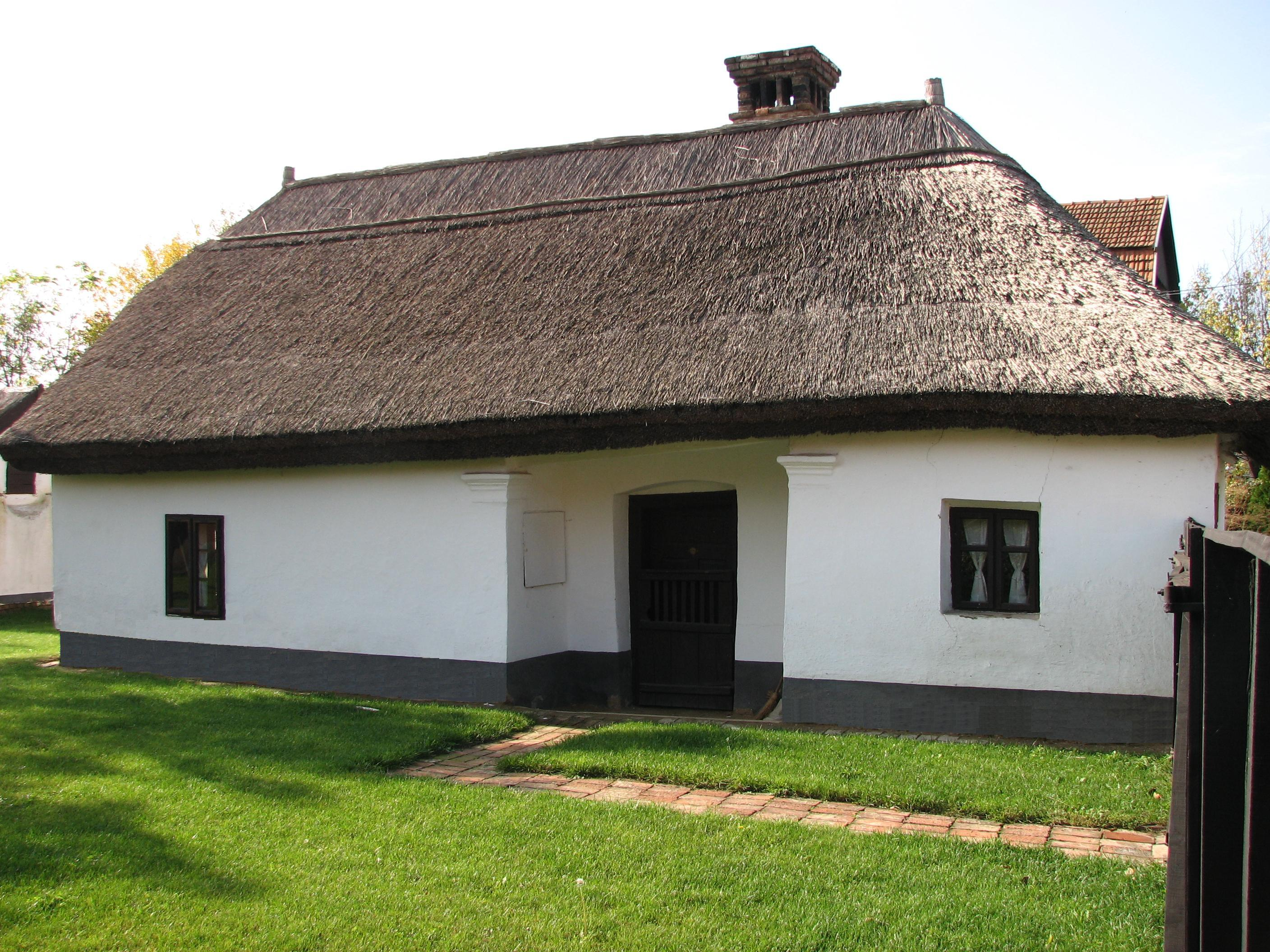 A typical old peasant-house. Listed ID 5312. Today the building works as the rural museum (in Hungarian: Tájház) of the town that aims to preserve the centuries old rural way of life of the region among its walls. - Rózsa St., Hajdúdorog, Hajdú-Bihar County, Hungary.